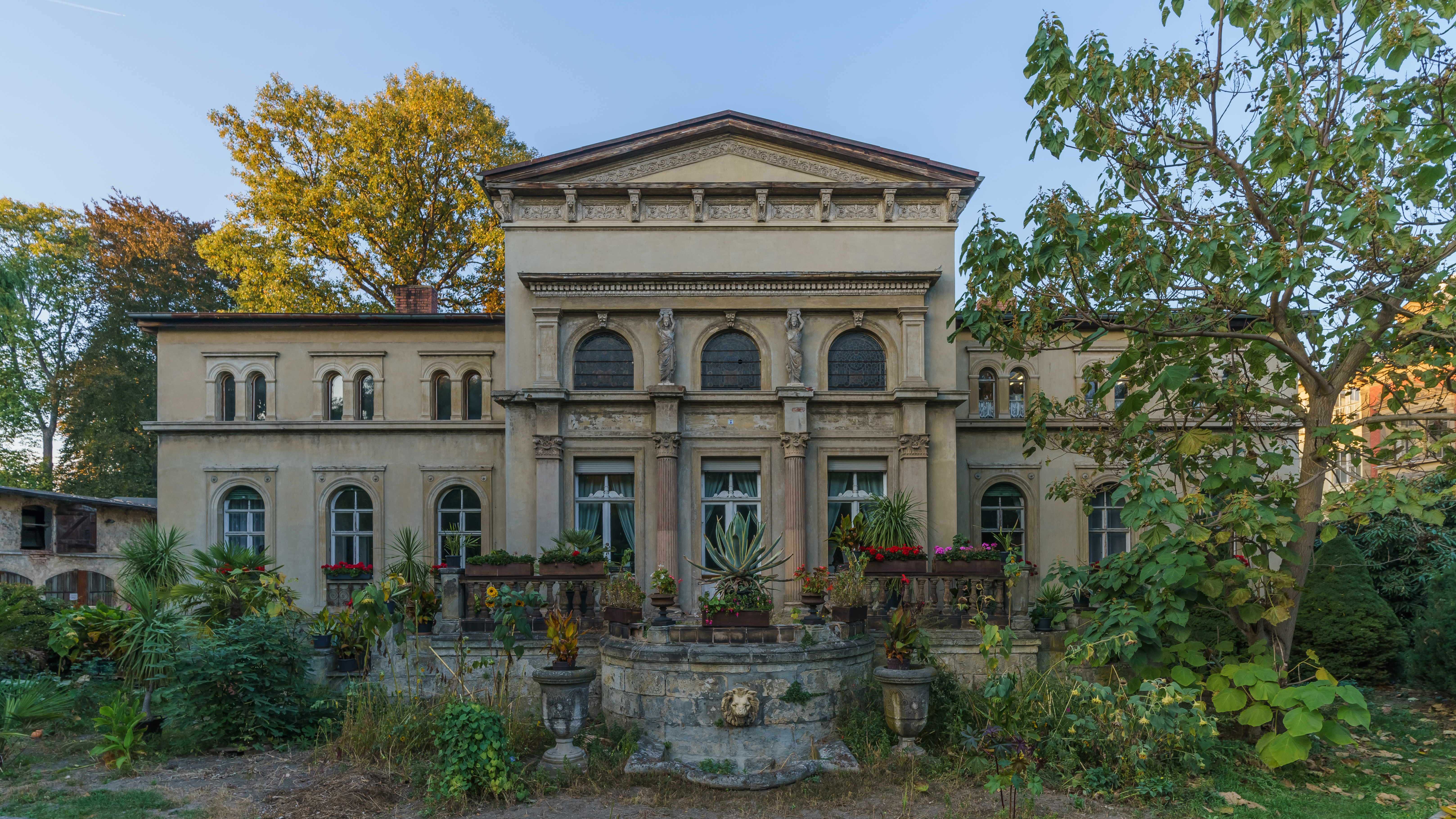 Listed mansion in Quedlinburg, Germany